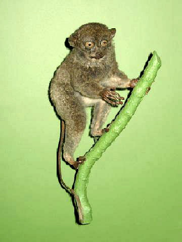 Description: Horsfield's Tarsier - Source: own work - Location: American Museum of Natural History, New York - Author: self, User:Stavenn